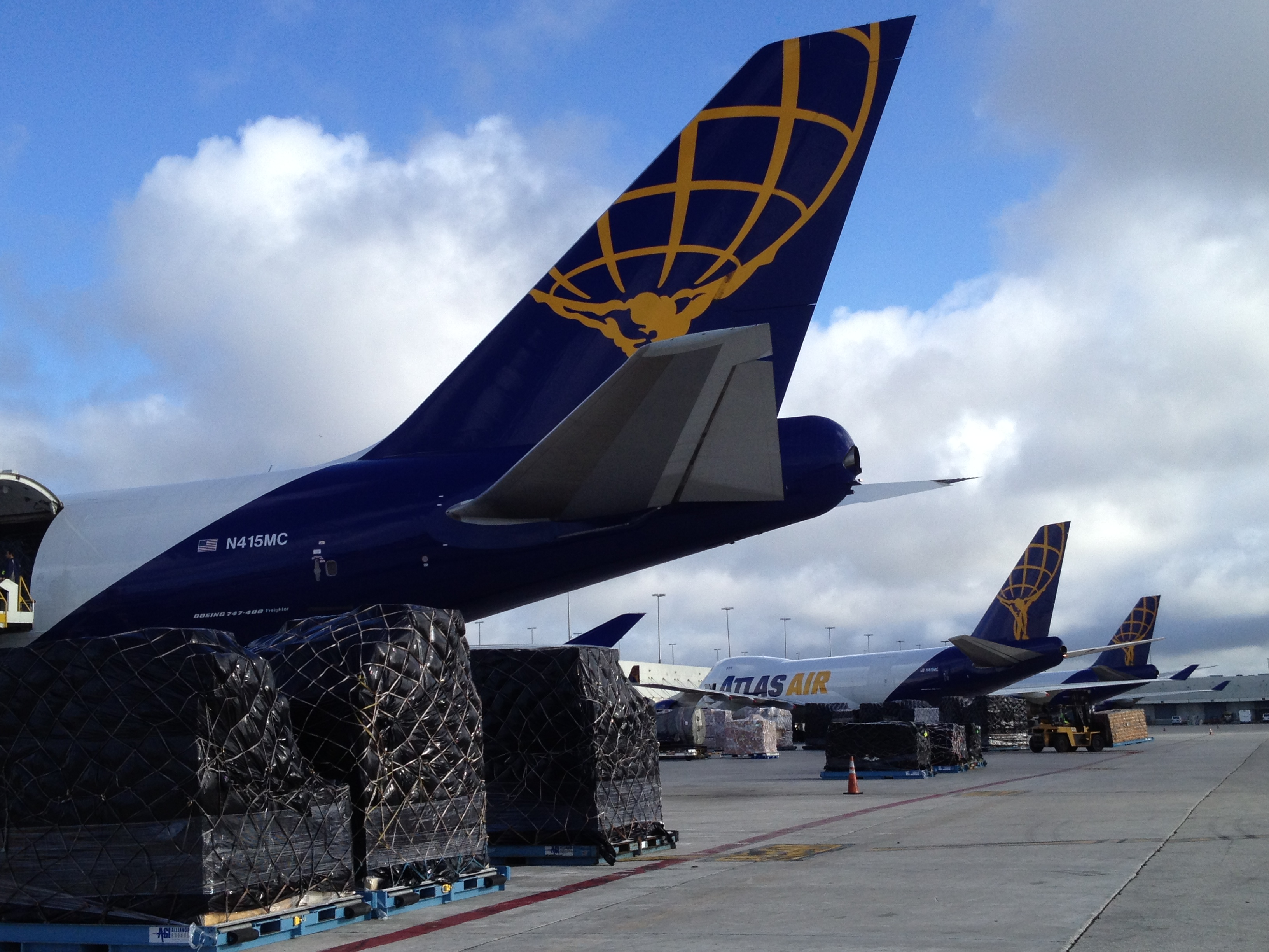 Loading Cargo in Miami